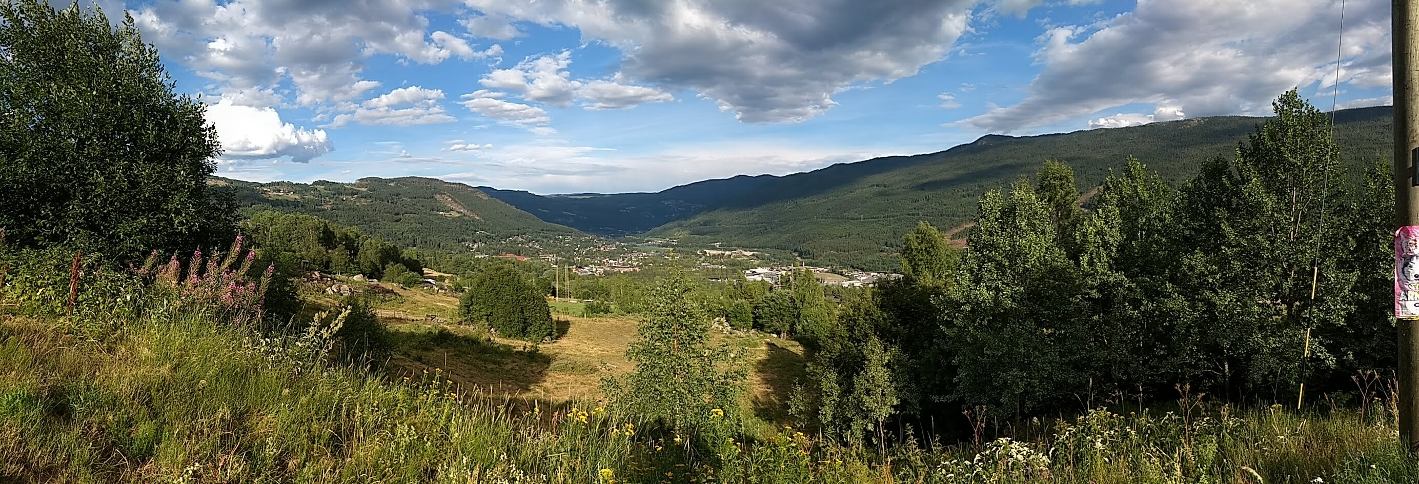 panoramic view over Gol, Norway, seen from the Folkehogskole, Skagevegen